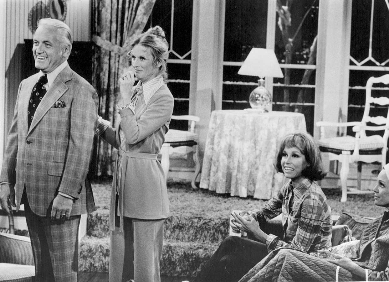 Publicity photo of Ted Knight, Cloris Leachman, Mary Tyler Moore and Valerie Harper from The Mary Tyler Moore Show. In this episode, Phyllis talks Ted into running for local public office.